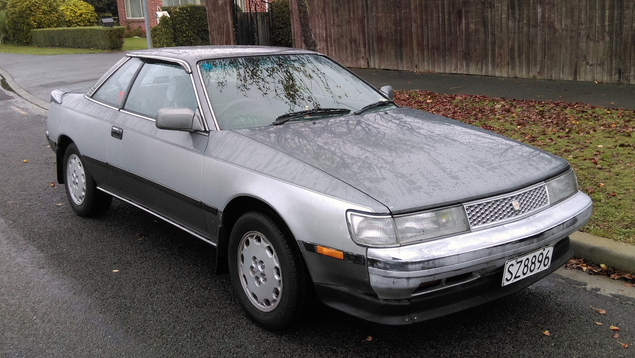 1987 Toyota Corona Coupe (T160).